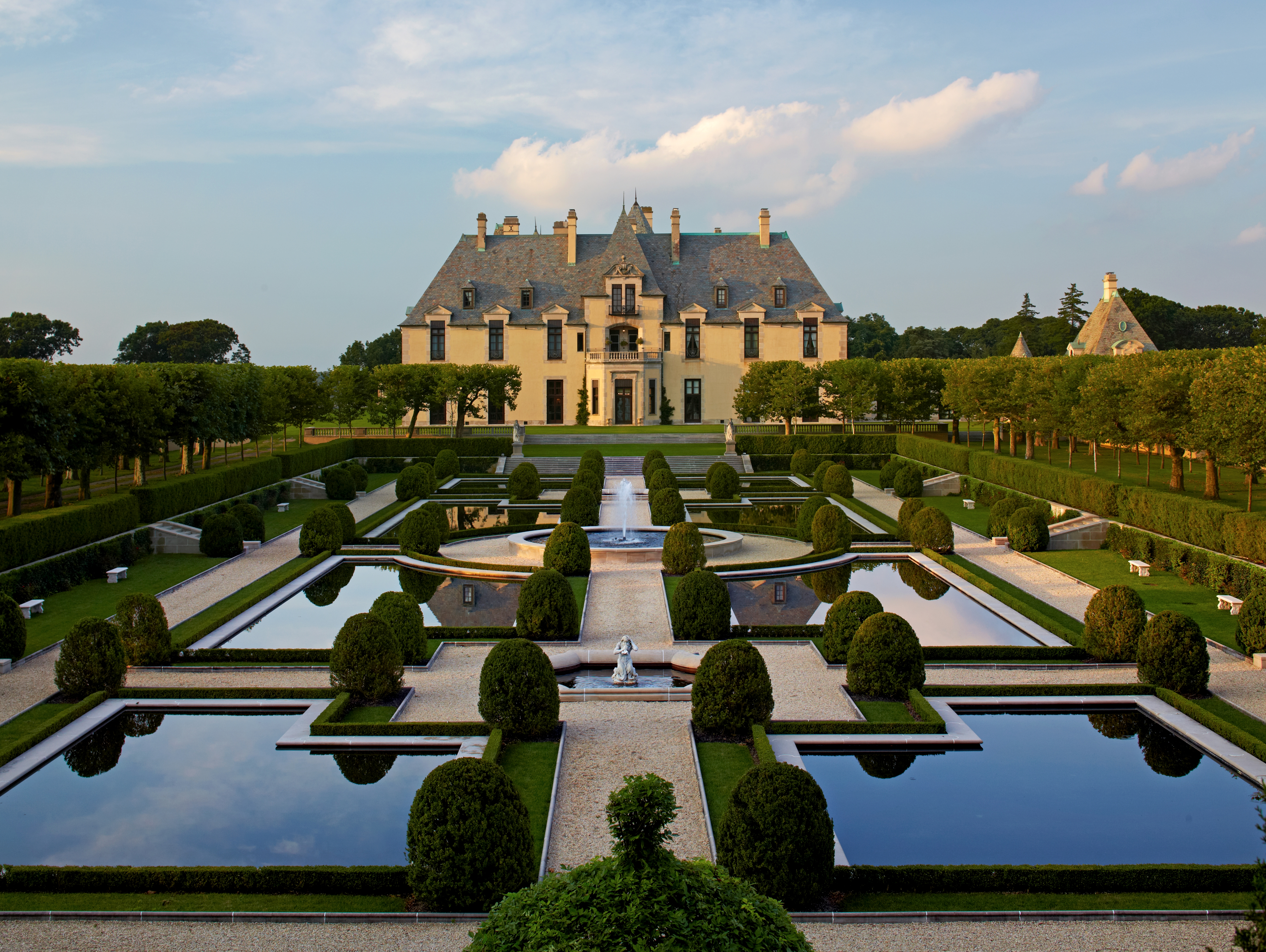 Photograph by Phillip Ennis Photography